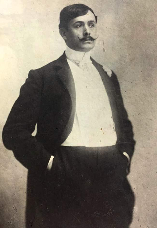 Juan Pablo ECHAGÜE